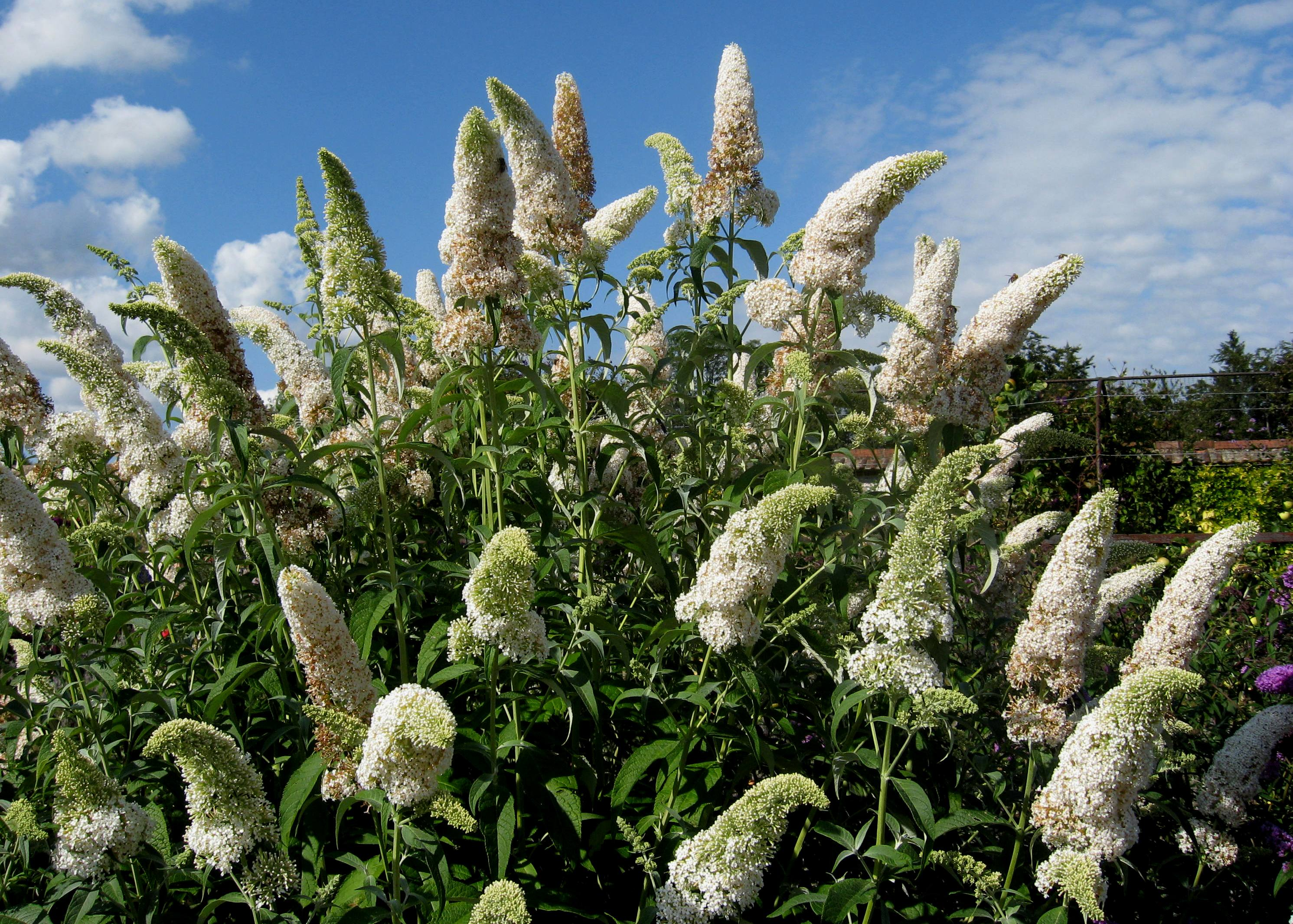 Photo of Buddleja cultivar taken at Longstock Park Nursery, UK, NCCPG national collection holder